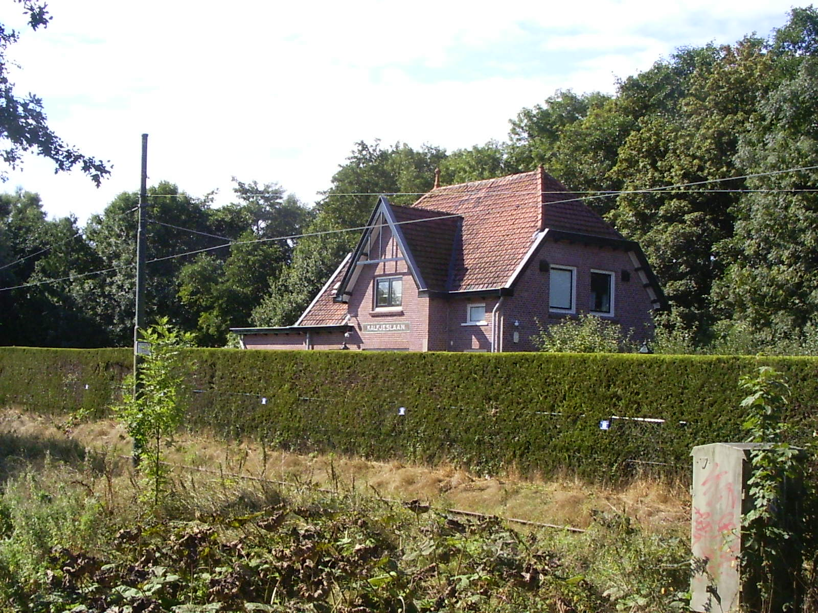 Kalfjeslaan train halte